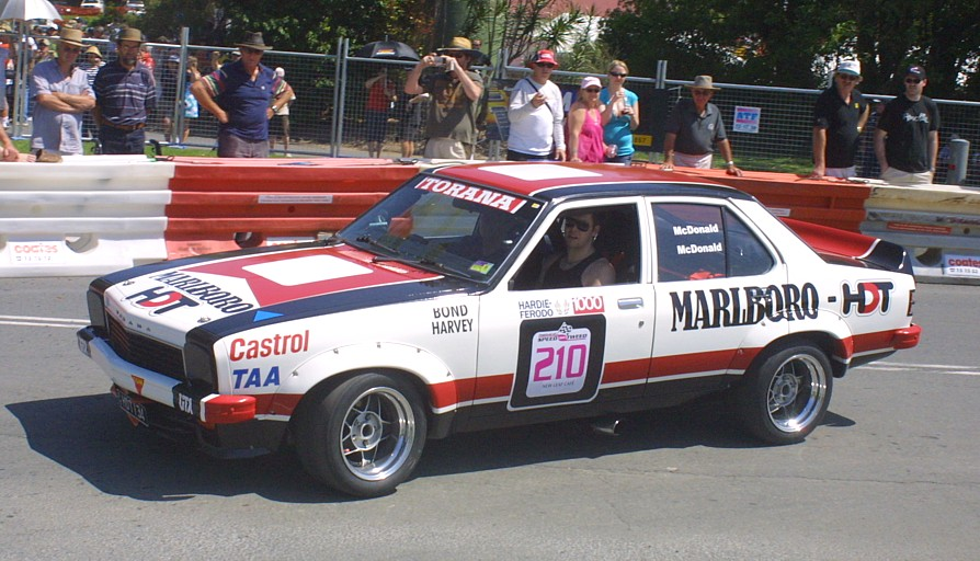 Replica of the 1976 Bathurst Holden Torana of Colin Bond and John Harvey, Built by Rory McDonald